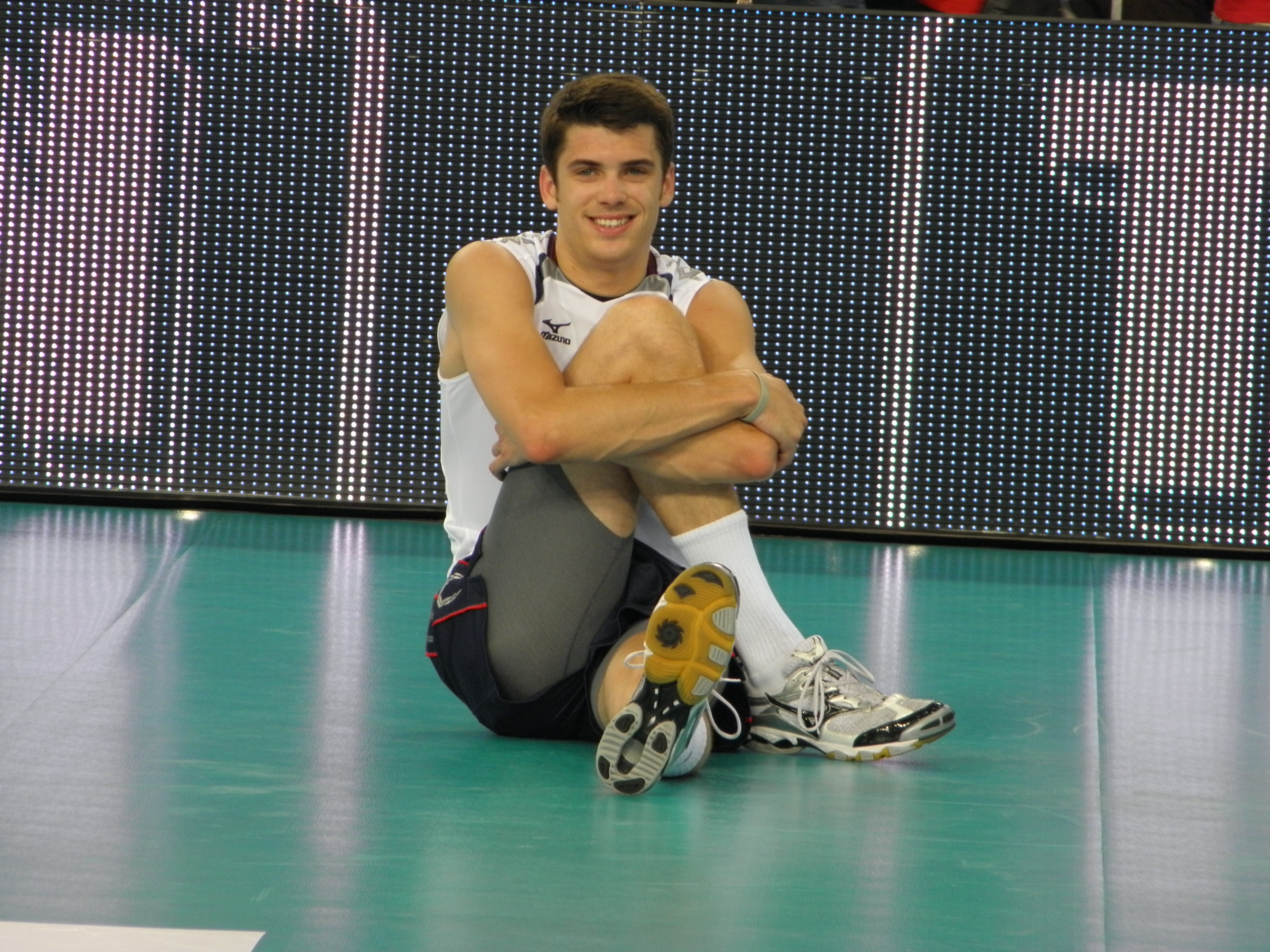 Matthew Anderson, World League, Lodz 2011